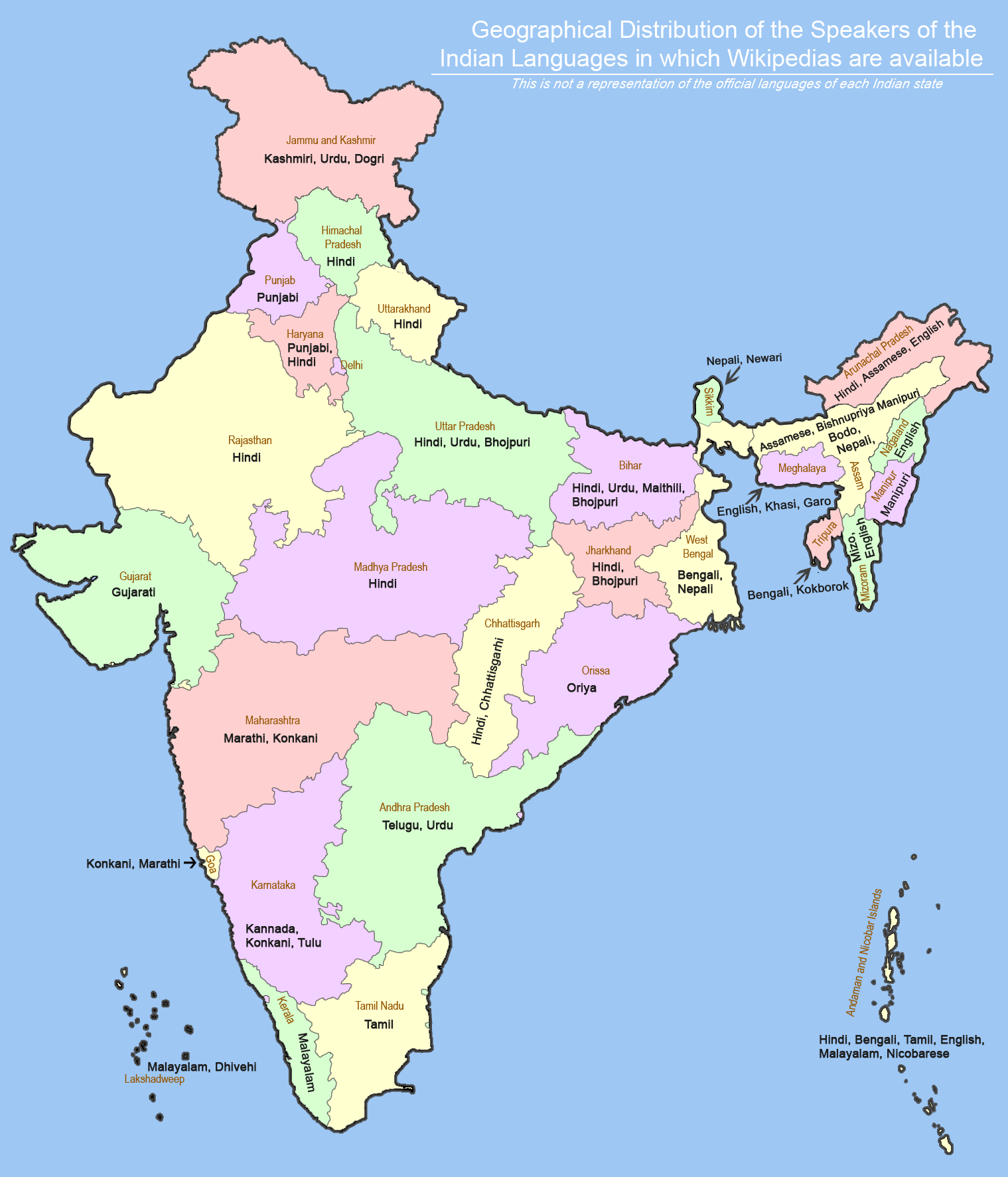 Geographical Distribution of the Speakers of the Indian Languages in which Wikipedias are available